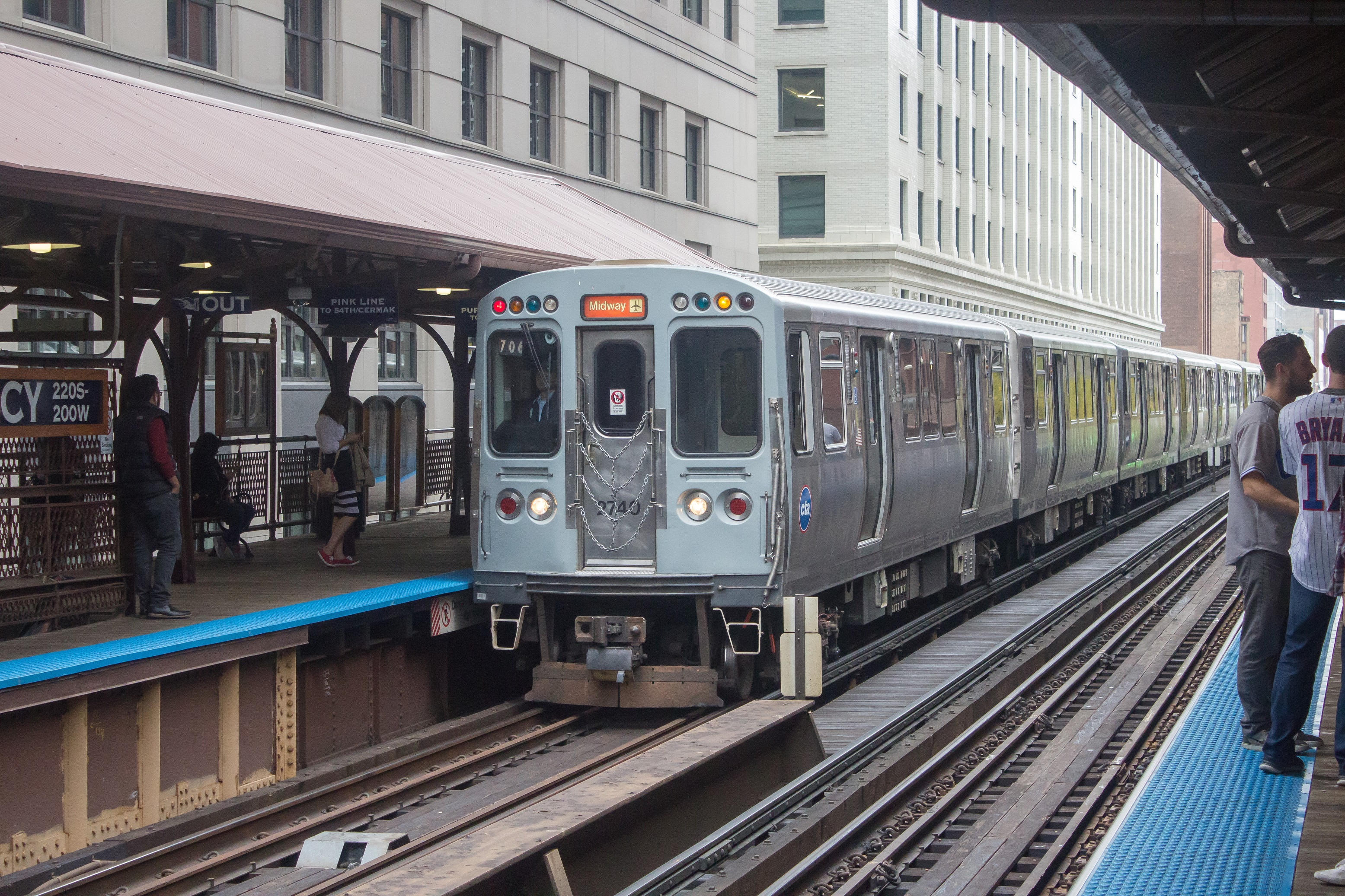 The subway car leading this Orange Line Train, Car No. 2740, is among the oldest rolling stock on the Chicago El. The 2600 series “L” cars were built from 1981-1987 by the Budd Company of Philadelphia, PA. The 2600 series entered revenue service in 1981. This was the final series of rolling stock built by the Budd Company before they went out of business in 1987. Most Chicago El cars have a length of 48 feet, which is shorter than the rolling stock found on other major rapid transit operators such as the New York City Subway and the Washington Metro.